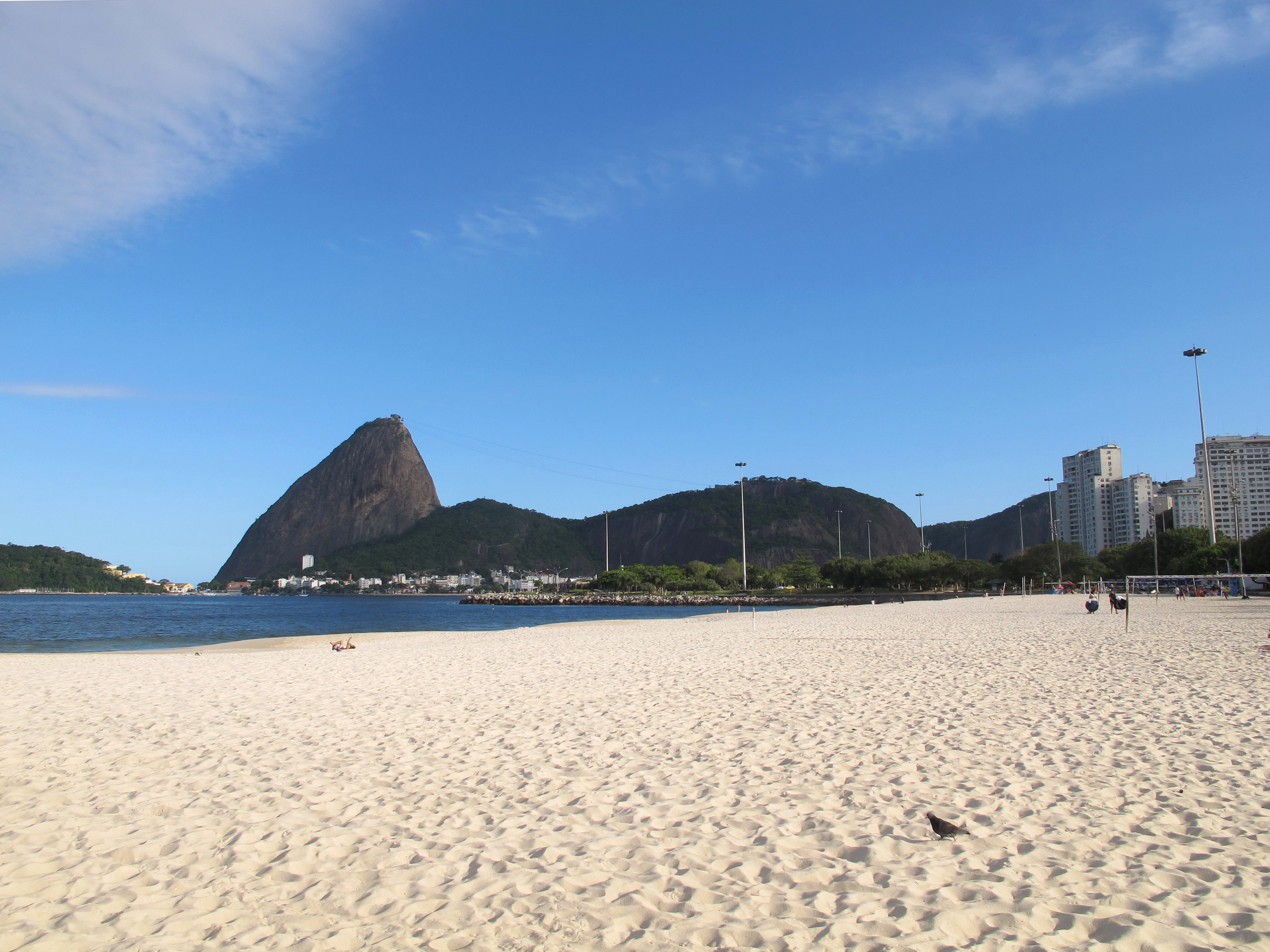 Flamengo beach in Rio de Janeiro, Brazil. At the bottom, Sugar Loaf and Urca mountains.